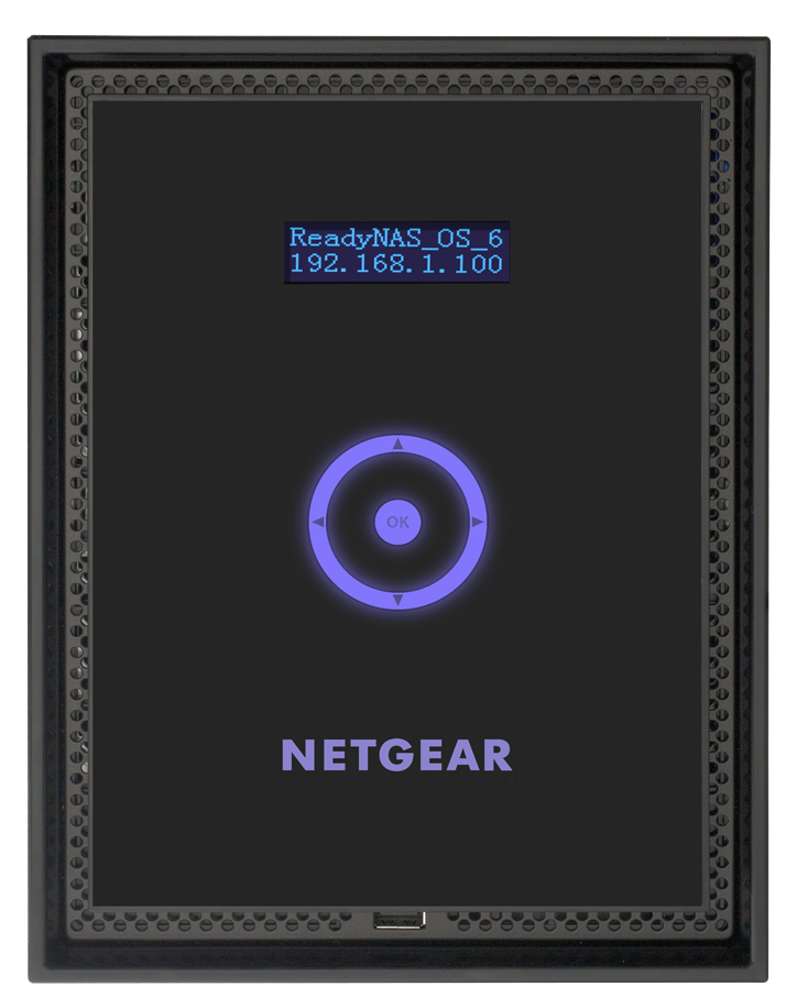 Netgear Storage ReadyNAS